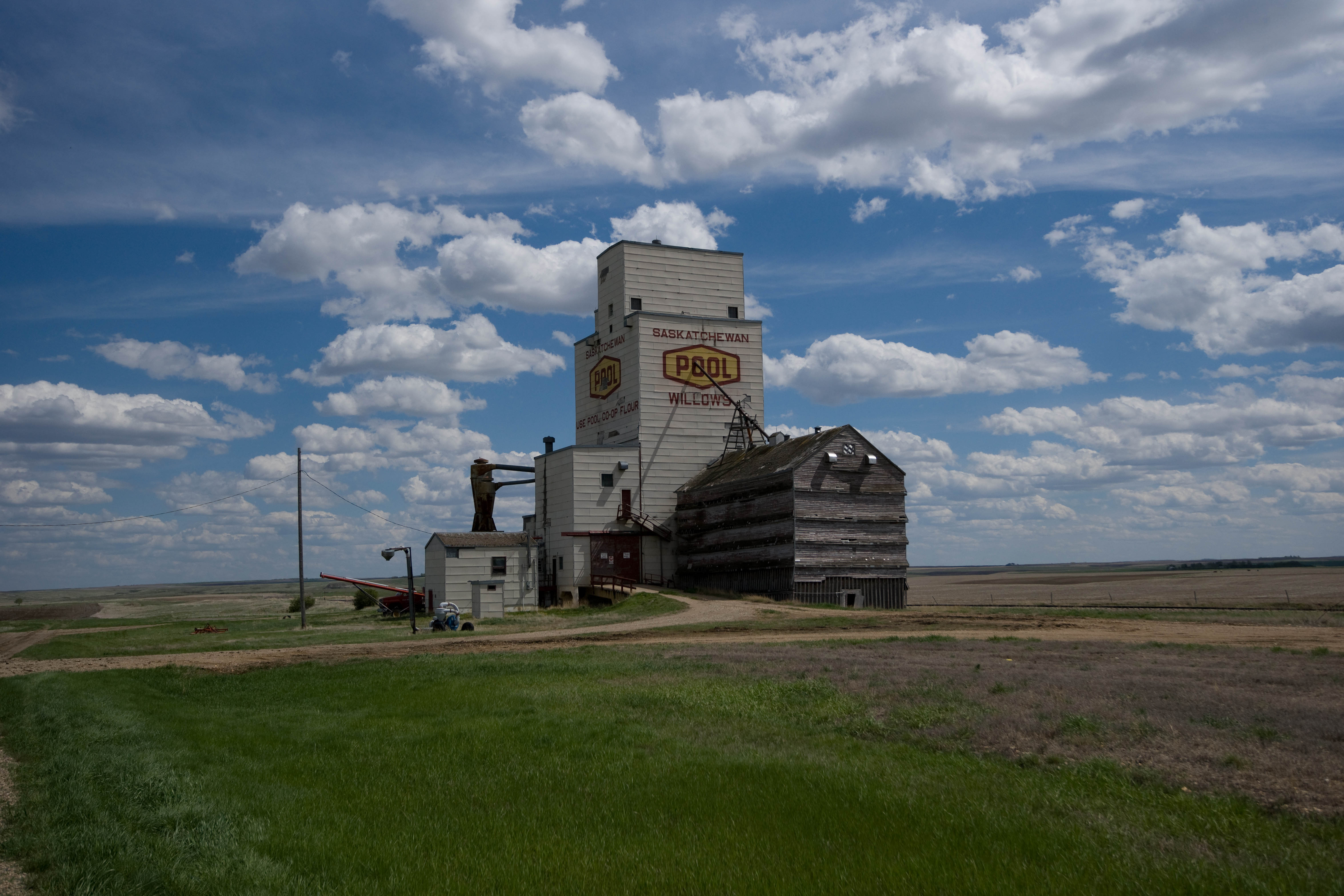 From